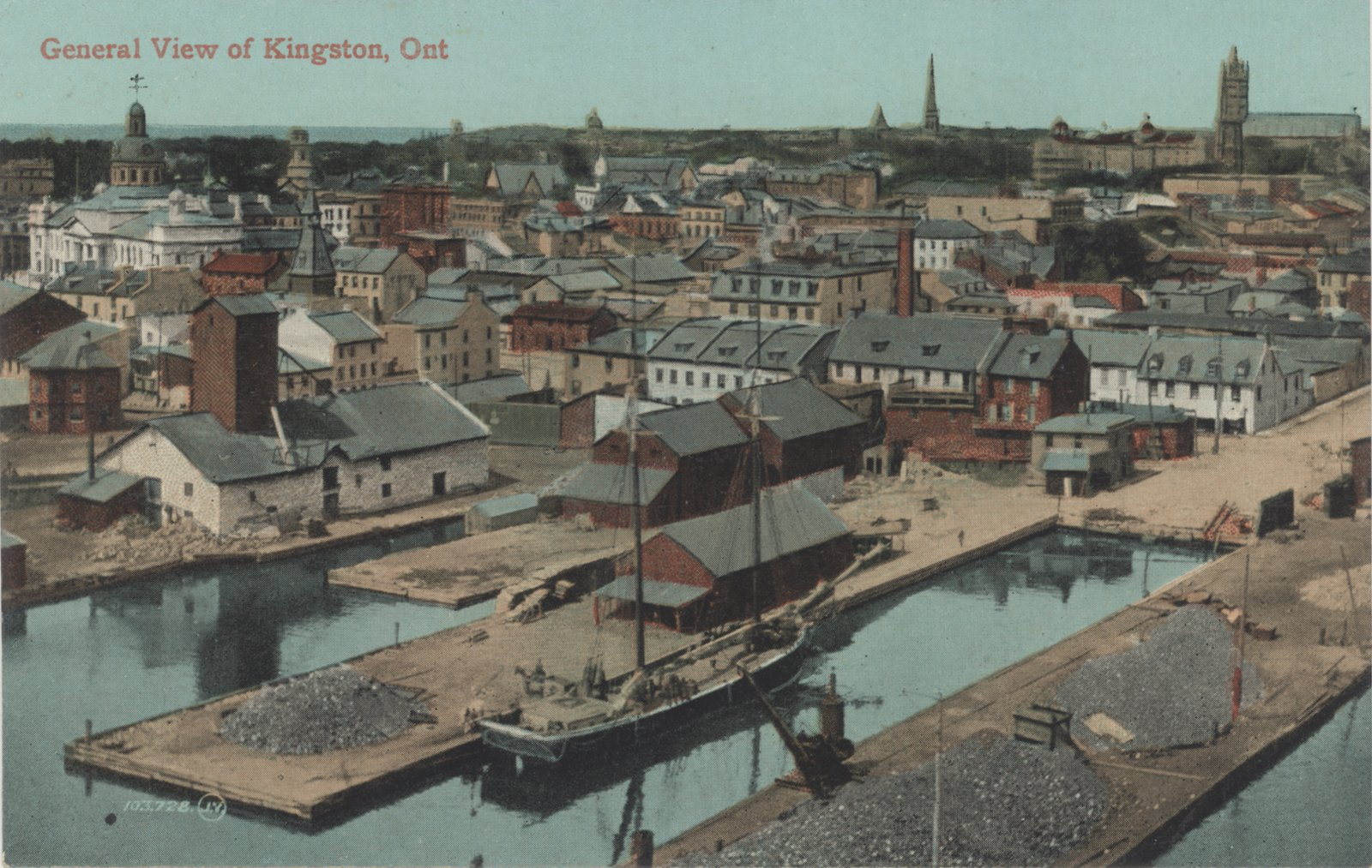 Postcard of the waterfront of Kingston, Ontario, Canada, roughly from the end of Princess Street to Queen Street. The view is from the top of one of the grain elevators in the harbour.